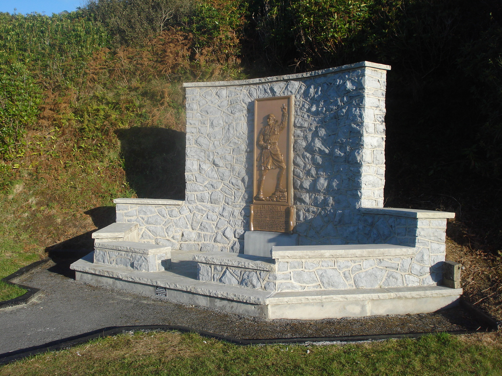 Monument for the attack at Rineen during the Irish War of Independence. Rineen is a small settlement near Miltown Malbay, on the road to Lahinch. Black & Tans went beserk and burned many houses in both towns. Monument designed by Walter Kiernan.